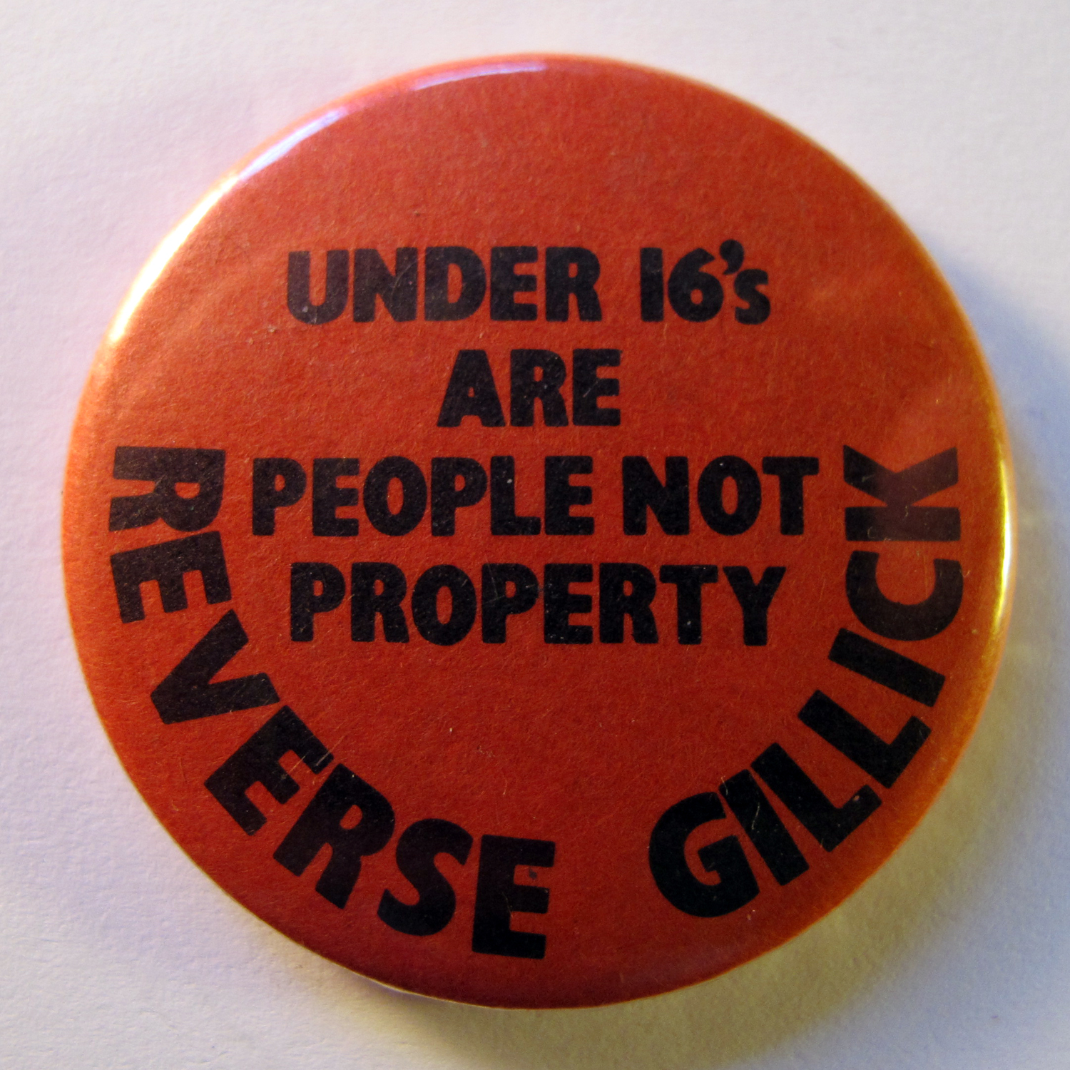 Medium-sized round badge, displaying the slogan 'Under-16s are People not Property: Reverse Gillick'